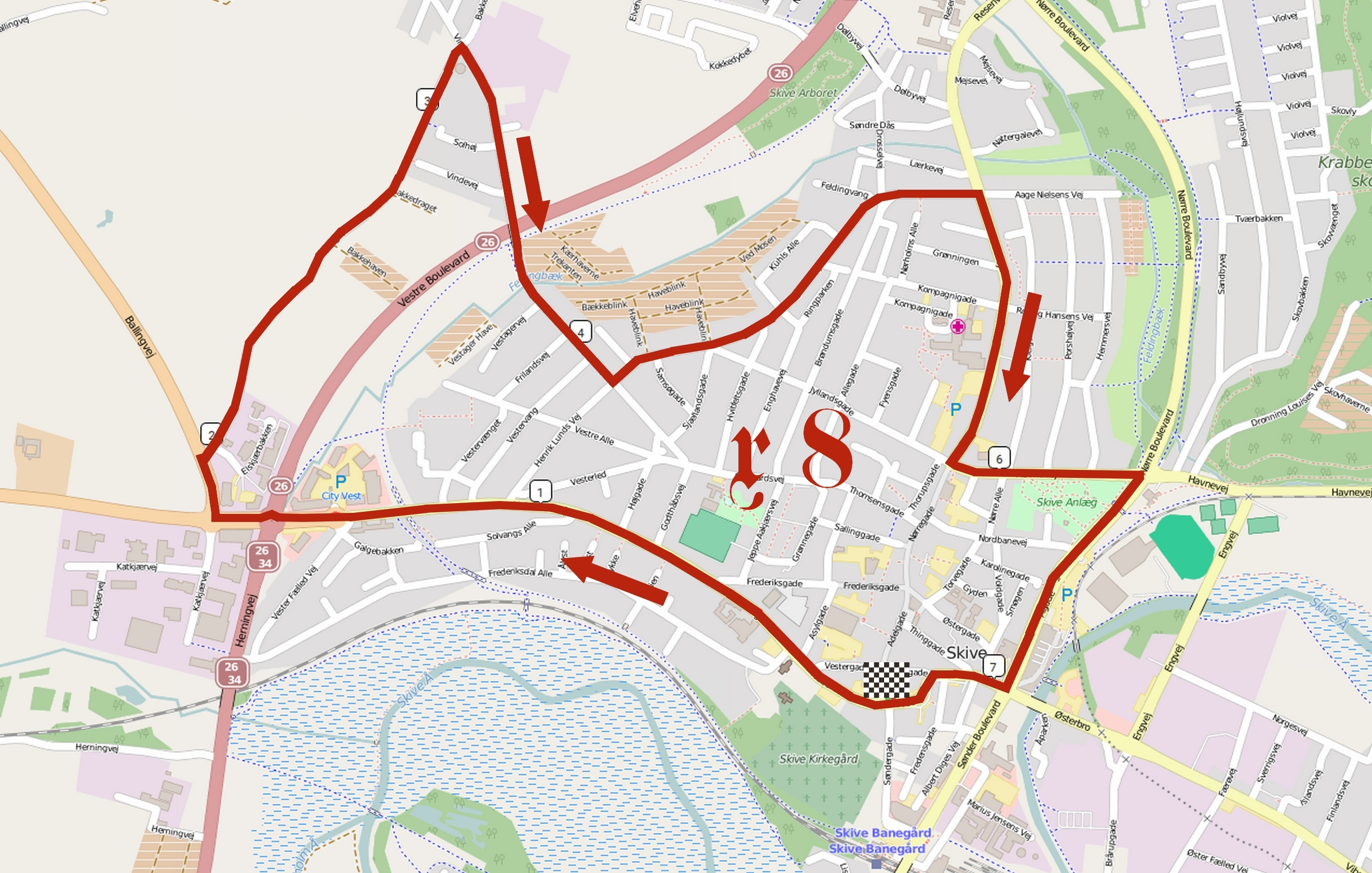 Parcours du circuit local de Skive-Løbet 2015. This map may be incomplete, and may contain errors. Don't rely solely on it for navigation.